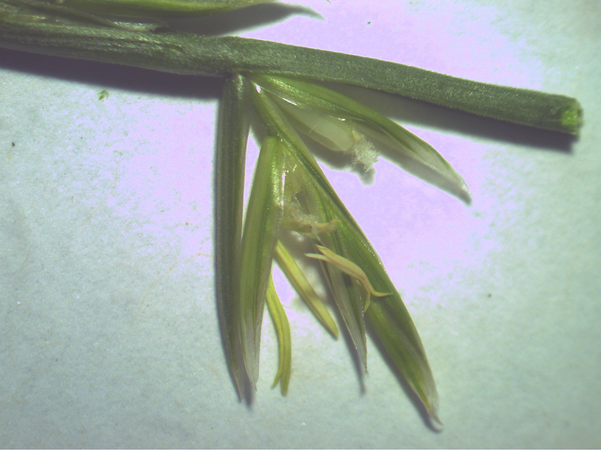 Spikelets are arranged in a spike and usually have 4-8 florets. Awns are absent or less than 3 mm long, the lower glume is absent and upper glume is greater than 75% of the spikelet’s length.